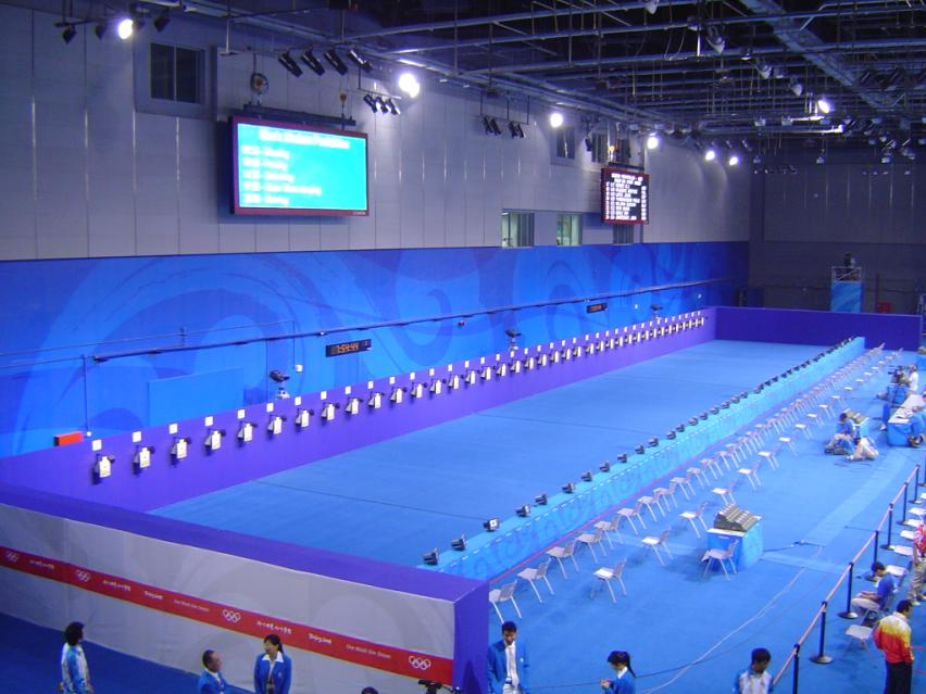 The Olympic Green Convention Center prepared for the shooting of the Modern pentathlon at the 2008 Summer Olympics.